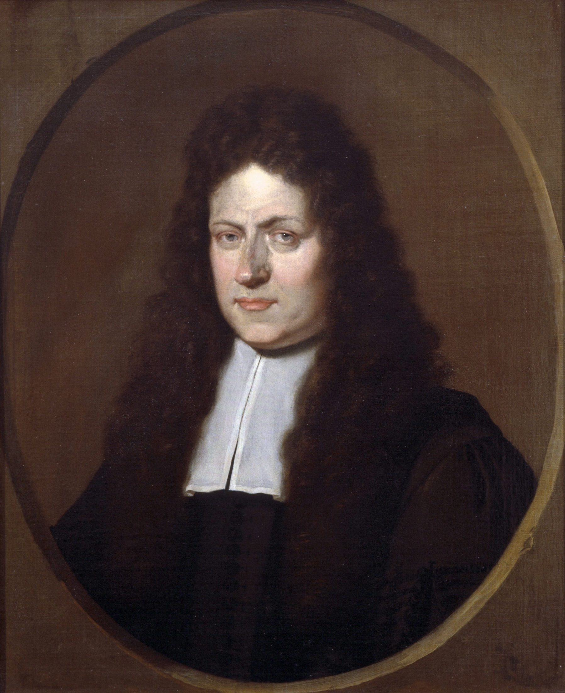 Johannes Georgius Graevius (1632-1703) oil on canvas 74 x 61 cm 1743